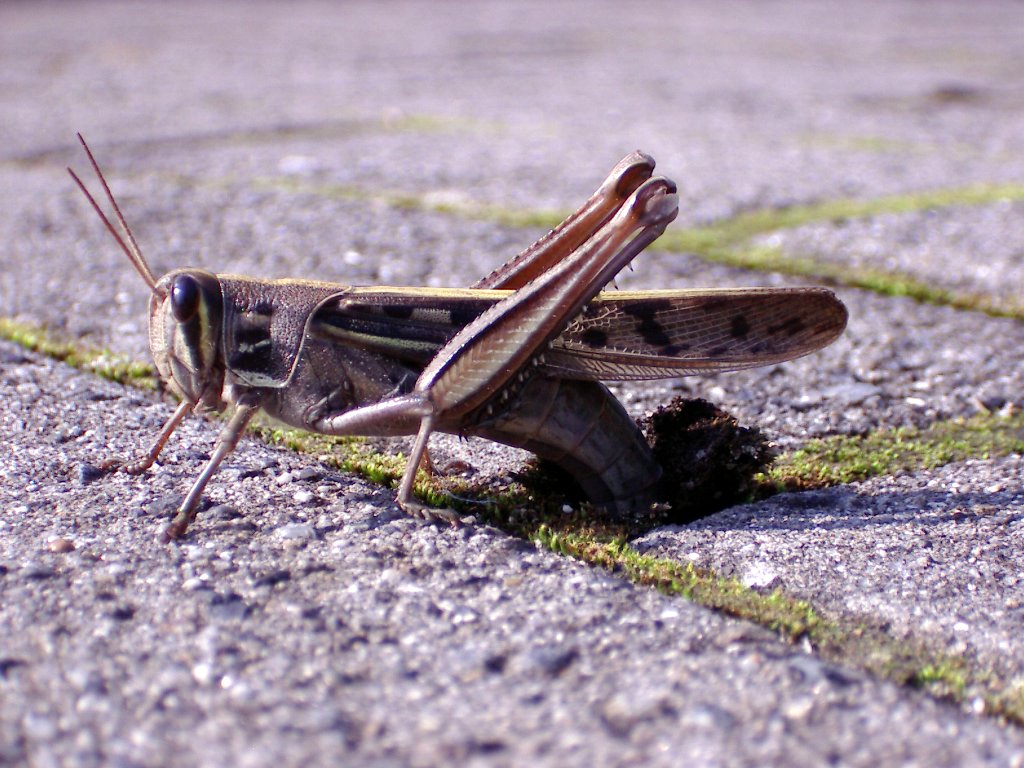 A patanga japonica laying her eggs onto earth between stone bricks. 石畳のすき間に産卵するツチイナゴ．